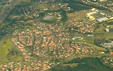 Aerial photo of Blackbutt Point from the east, near Wollongong